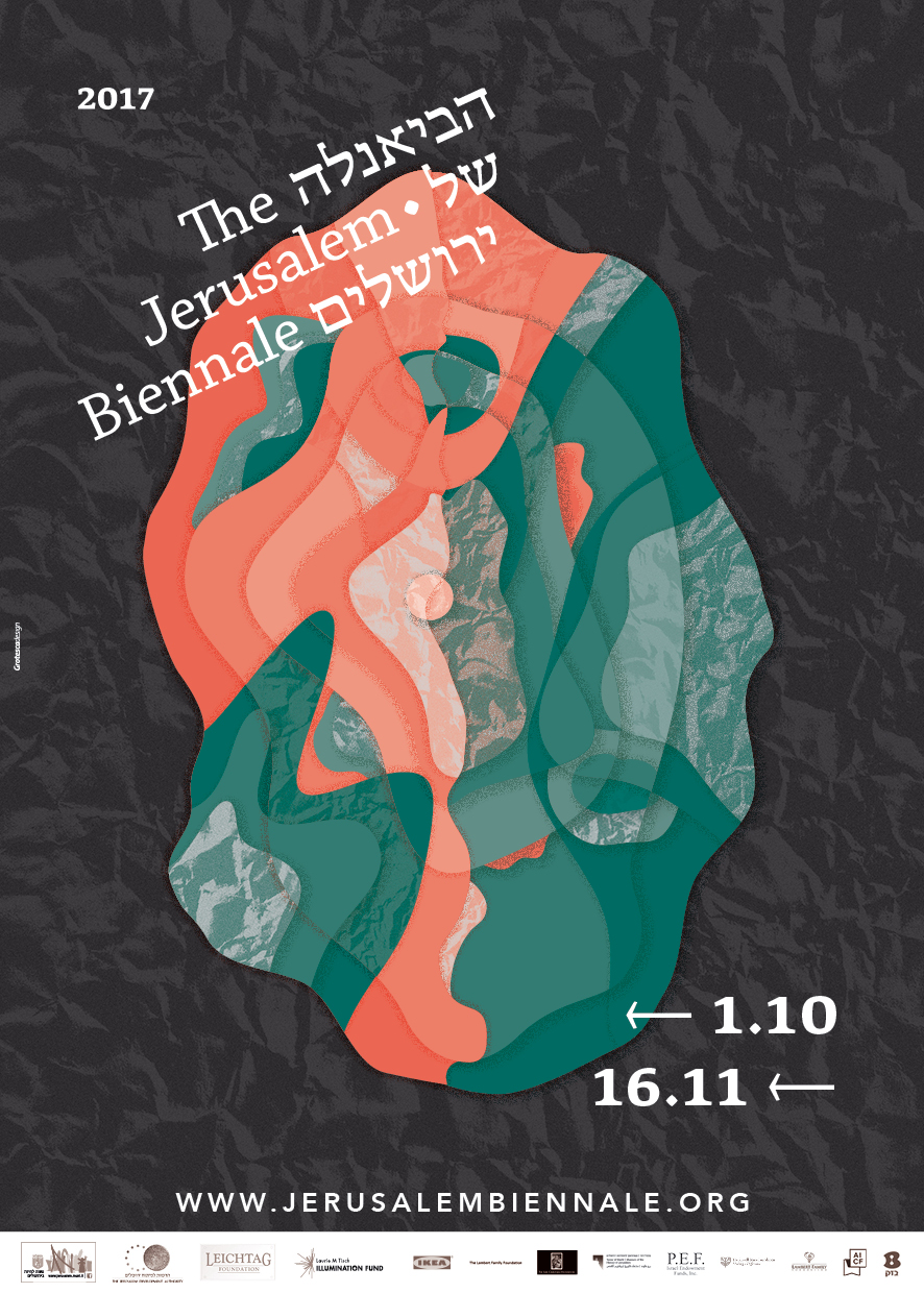 The poster for the third Jerusalem Biennale that was held in 2017, poster created for the Jerusalem Biennale by Grotesca Design